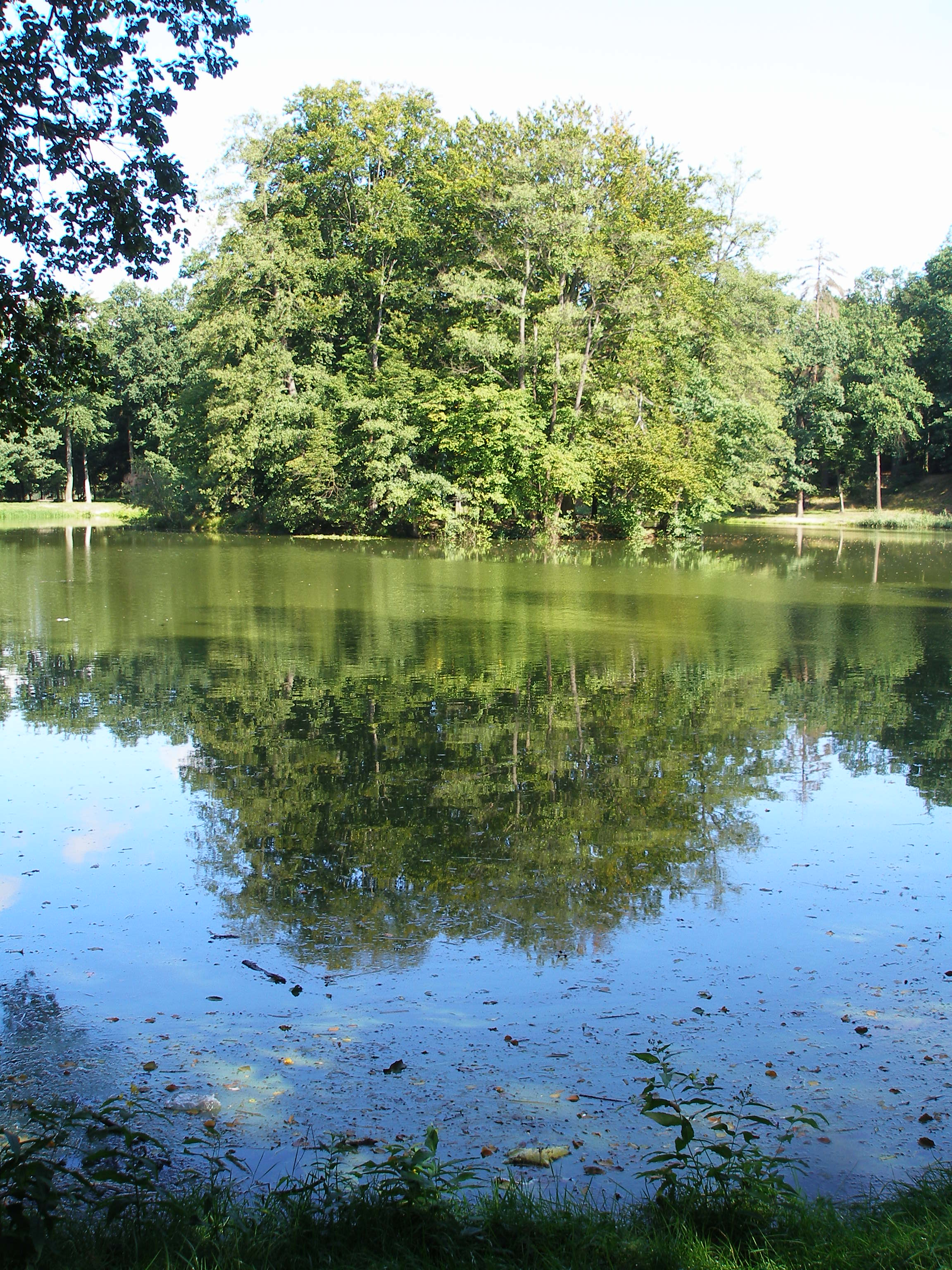 A castle park in Mimoň, Czechia